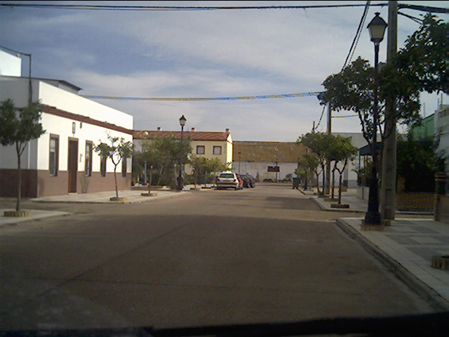 Calle principal del Poblado Alfonso XIII